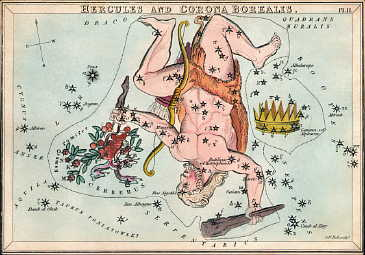 Hercules as depicted in Urania’s Mirror, a set of constellation cards published in London c. 1825.